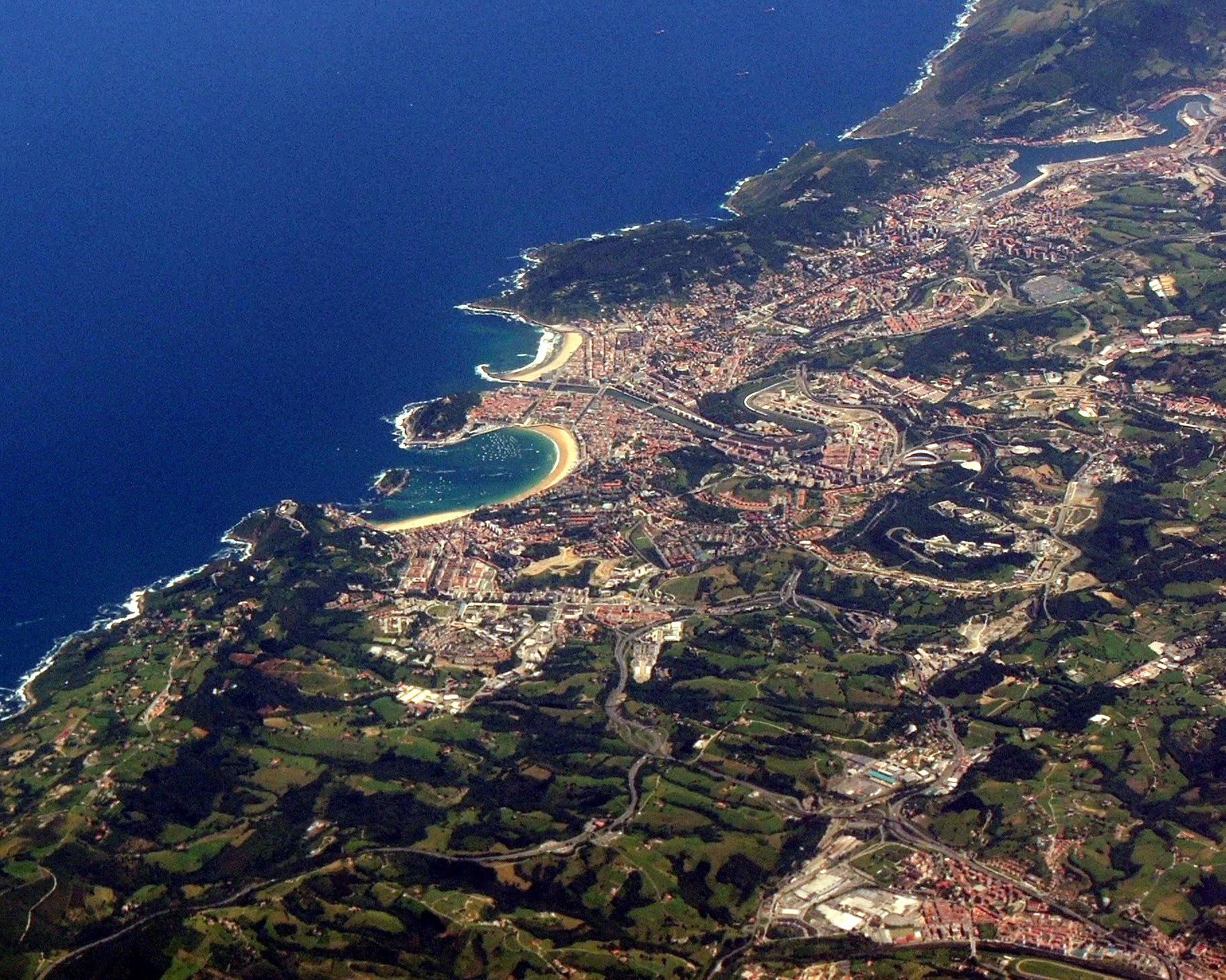 Aerial View of San Sebastian - Donostia and Pasajes - Pasaia, Basque Country, Spain. Flying from Zaragoza to London Stansted.